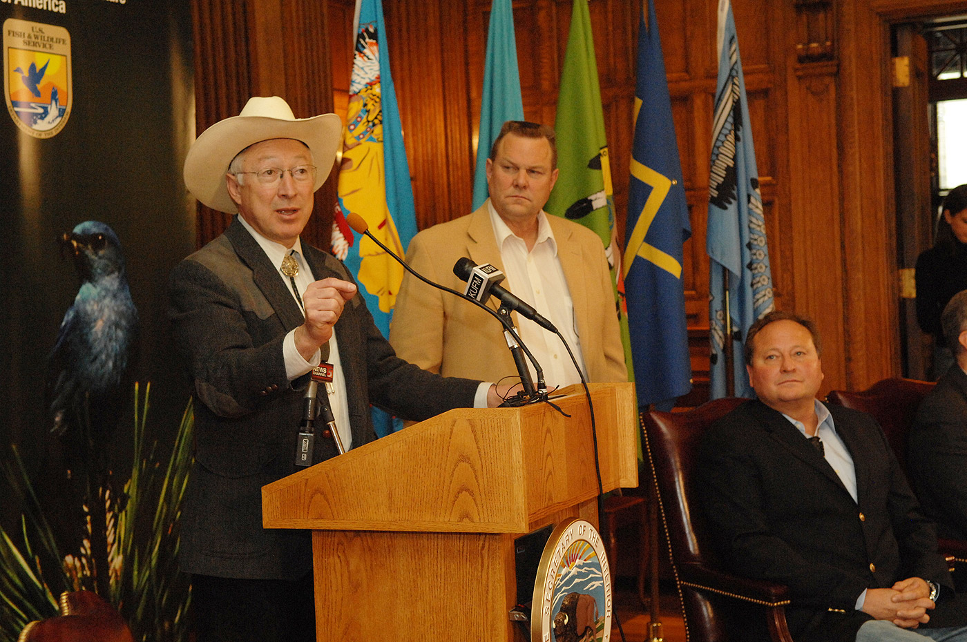 Secretary of the Interior Ken Salazar announces a $280 million investment in the U.S. Fish and Wildlife Service during a press conference at the Montana State Capital in Helena. The secretary was joined by U.S. Senator Jon Tester (standing) and Montana Governor Brian Schweitzer (seated).